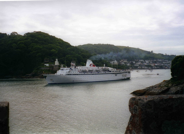 Cruise Ship leaving River Dart